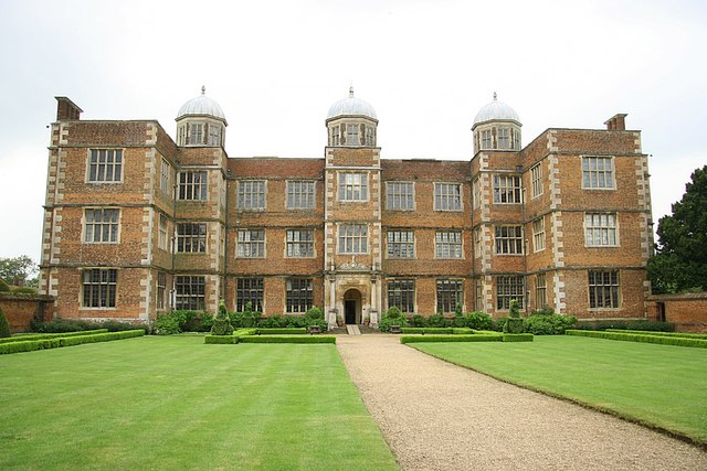 Doddington Hall: The east front of Doddington Hall, built by Robert Smythson for Thomas Tailor c1600.